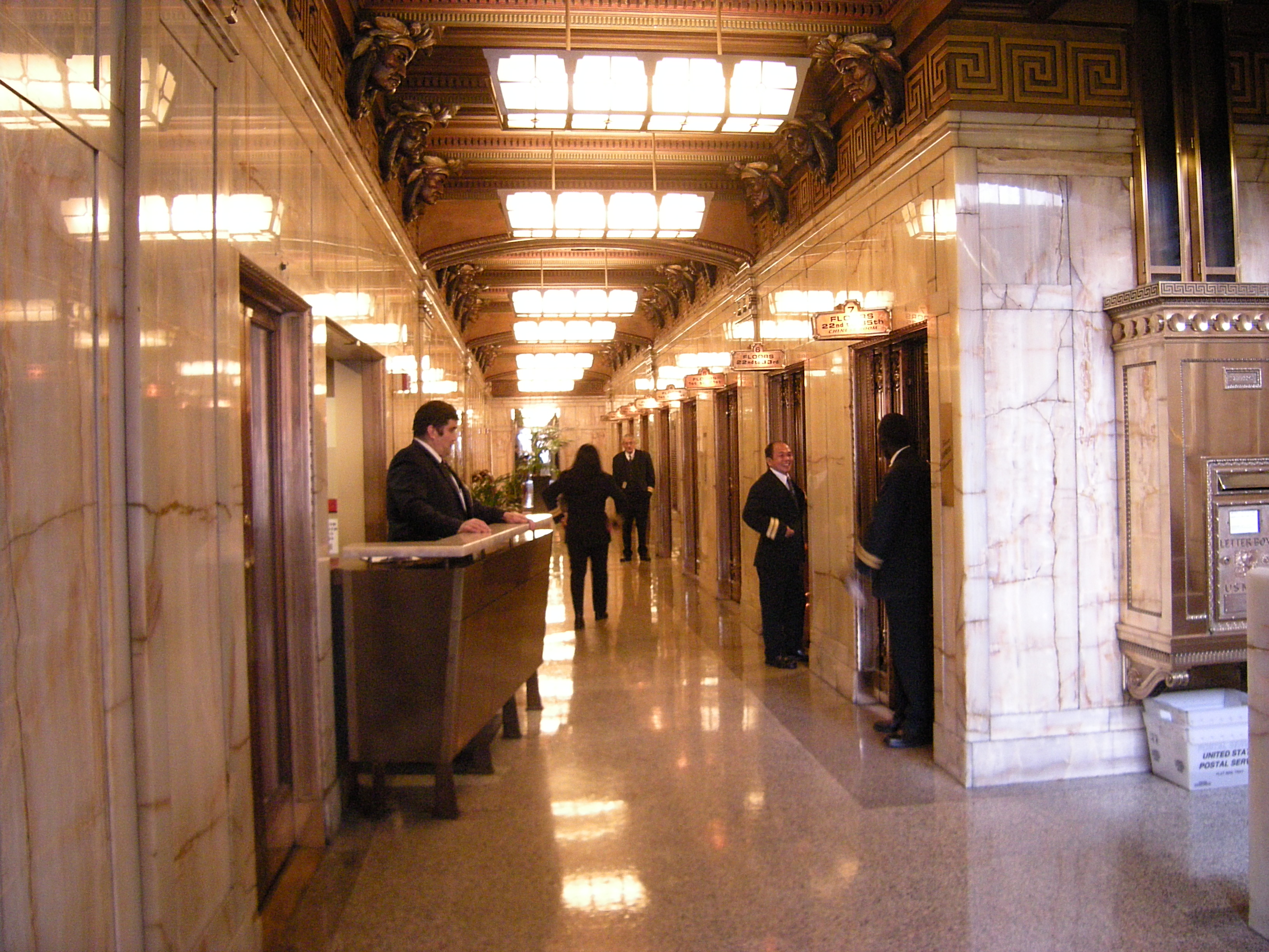 Lobby of the Smith Tower, Seattle, Washington, USA. Note the Indian head sculptures above the elevator doors. The Smith Tower is one of the last buildings in Seattle to use elevator operators rather than self-service elevators.